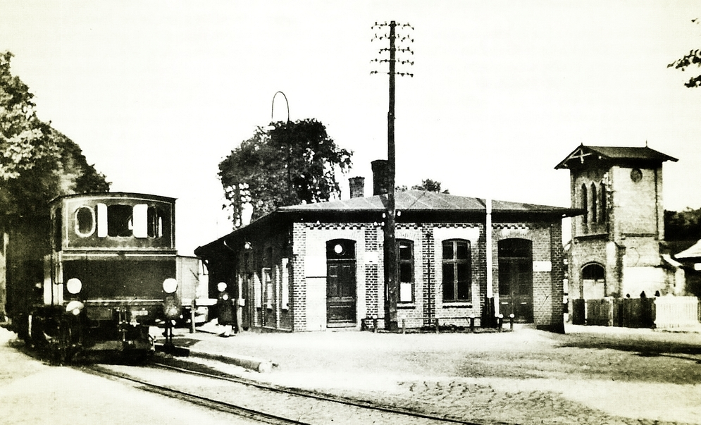 railway station boizenburg